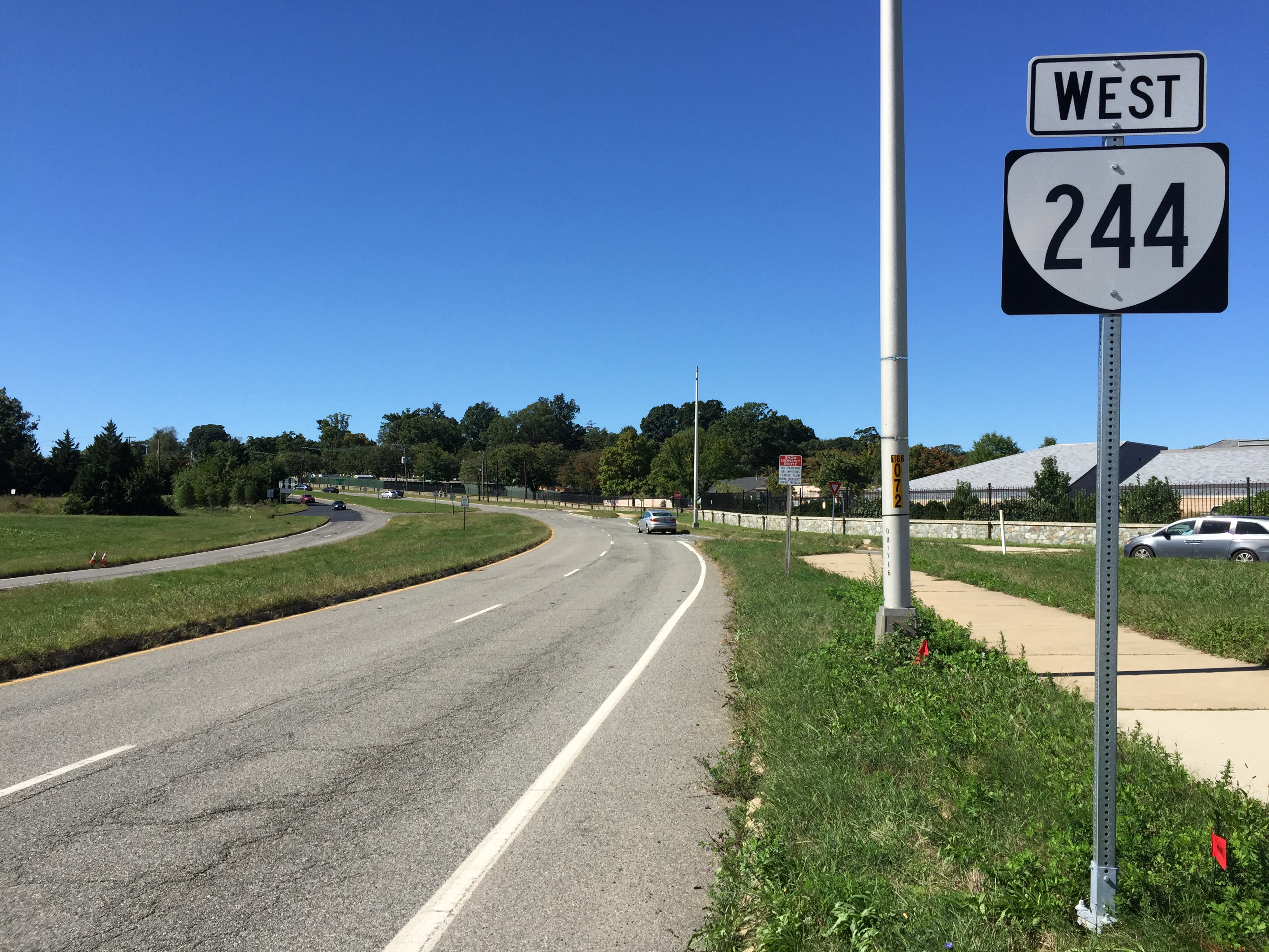 View west along Virginia State Route 244 (Columbia Pike) at Virginia State Route 27 (Washington Boulevard) in Arlington County, Virginia